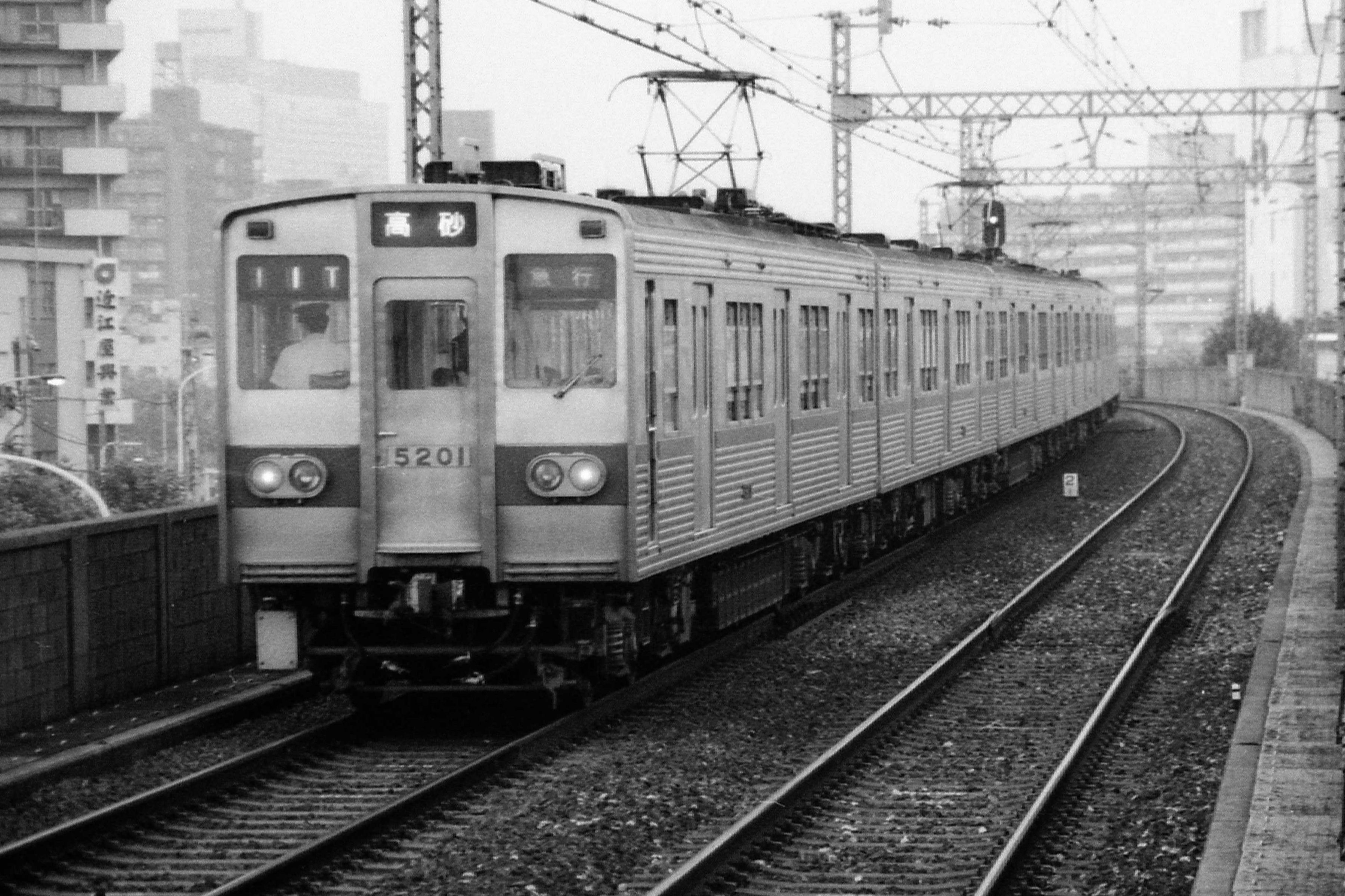 An Express train to Keisei Takasago with Toei 5200 before refurbishment at Shin Bamba